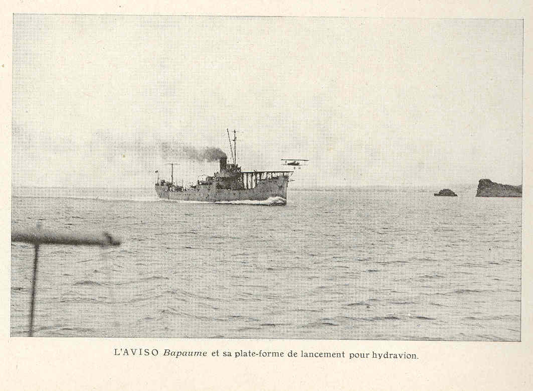 Subject: Gunboats, Bapaume (Ship), Aircraft carriers Tag: Vessels